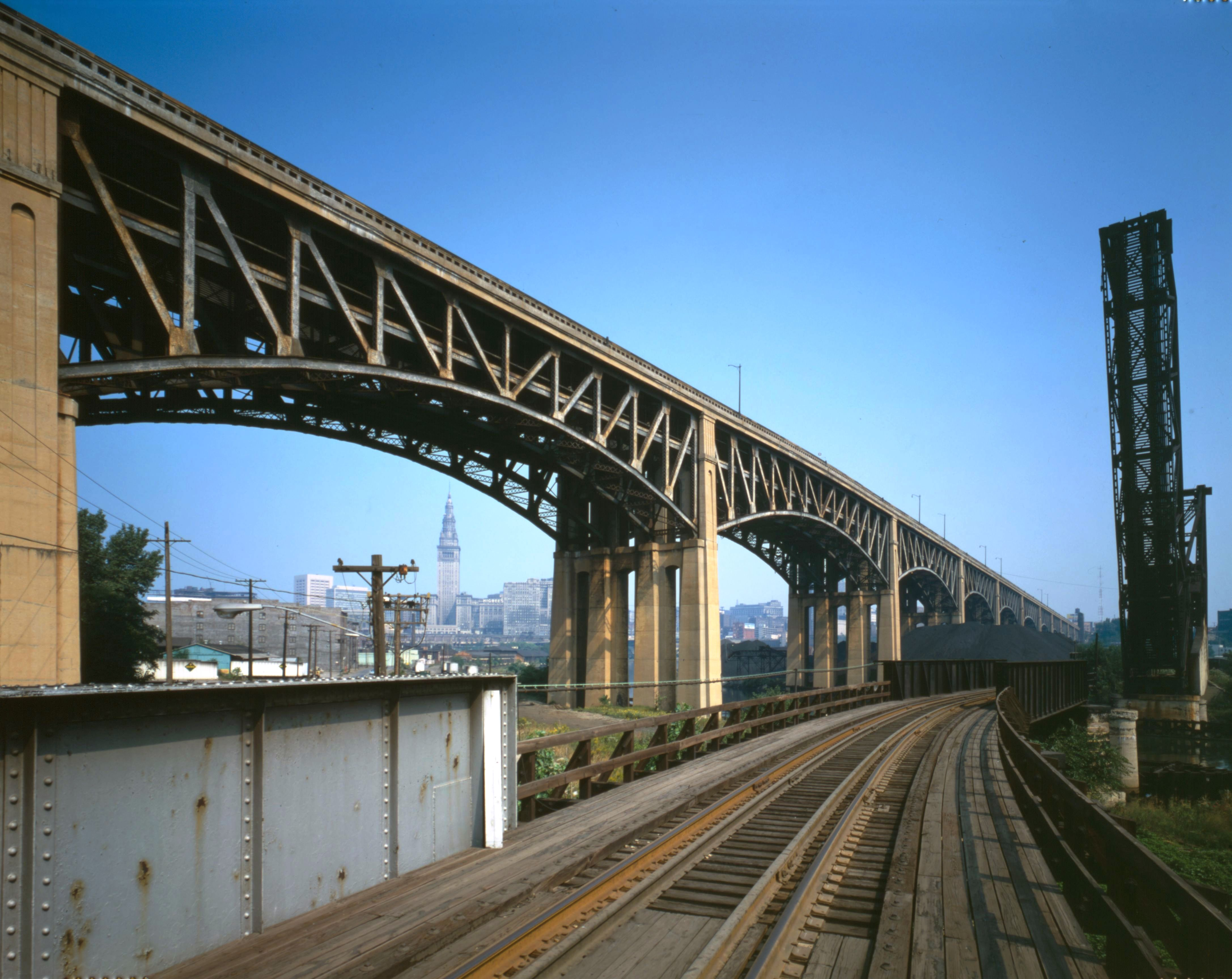 National Register of Historic Places in Ohio. Lorain-Carnegie Bridge, Spanning Cuyahoga River, Cleveland, Cuyahoga County, Ohio. . Created/Published: Documentation compiled after 1968. Notes: Survey number HAER OH-16. Building/structure dates: Completed 1932.